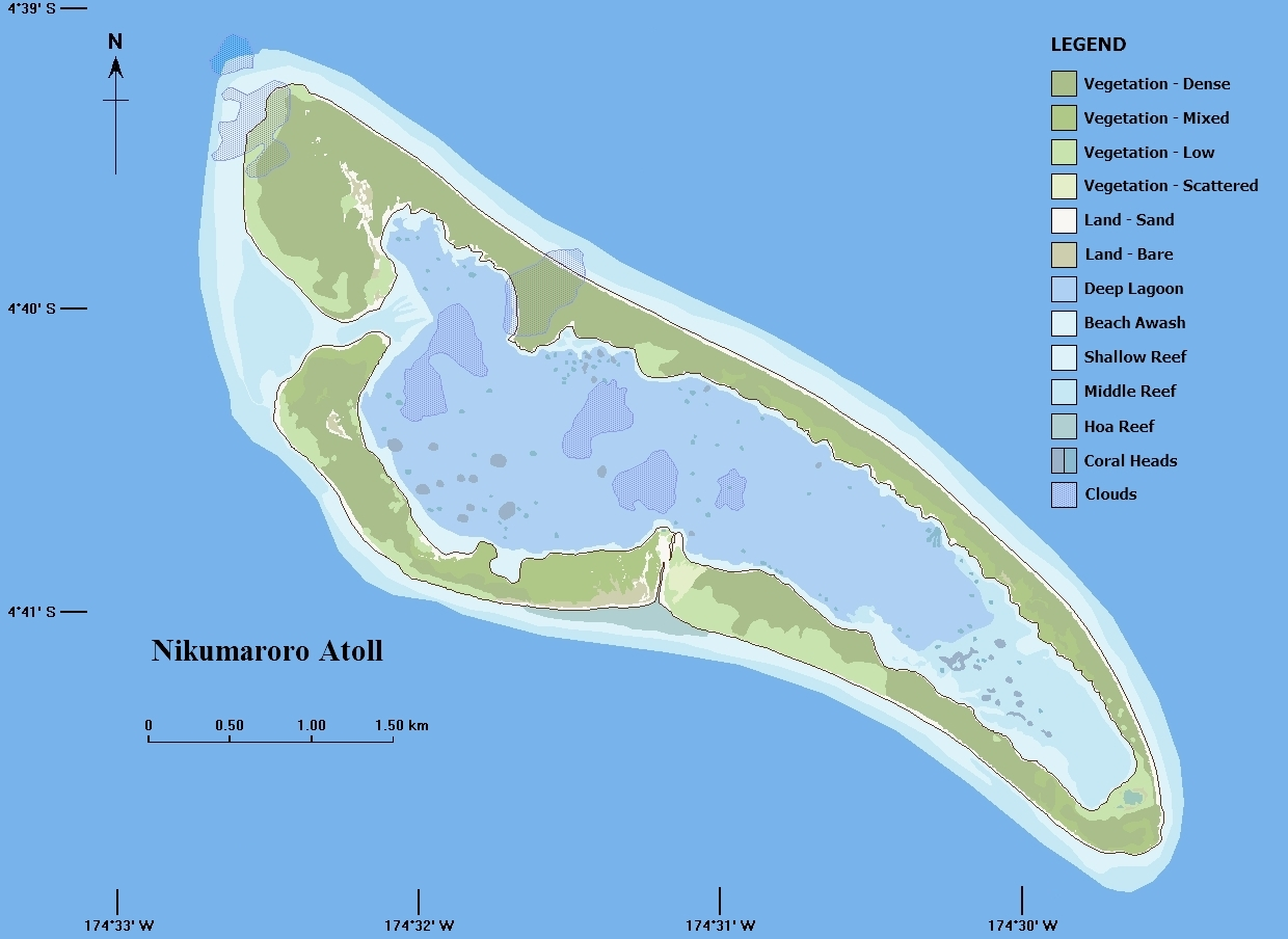 Map of Nikumaroro